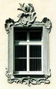 Rocaille stucco around window in Obermarchtal monastery, created in late 16th century